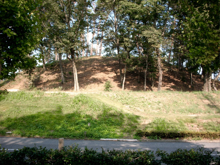 The 2nd of Takaraduka Kofun, Matsusaka city Mie Prf. Japan.